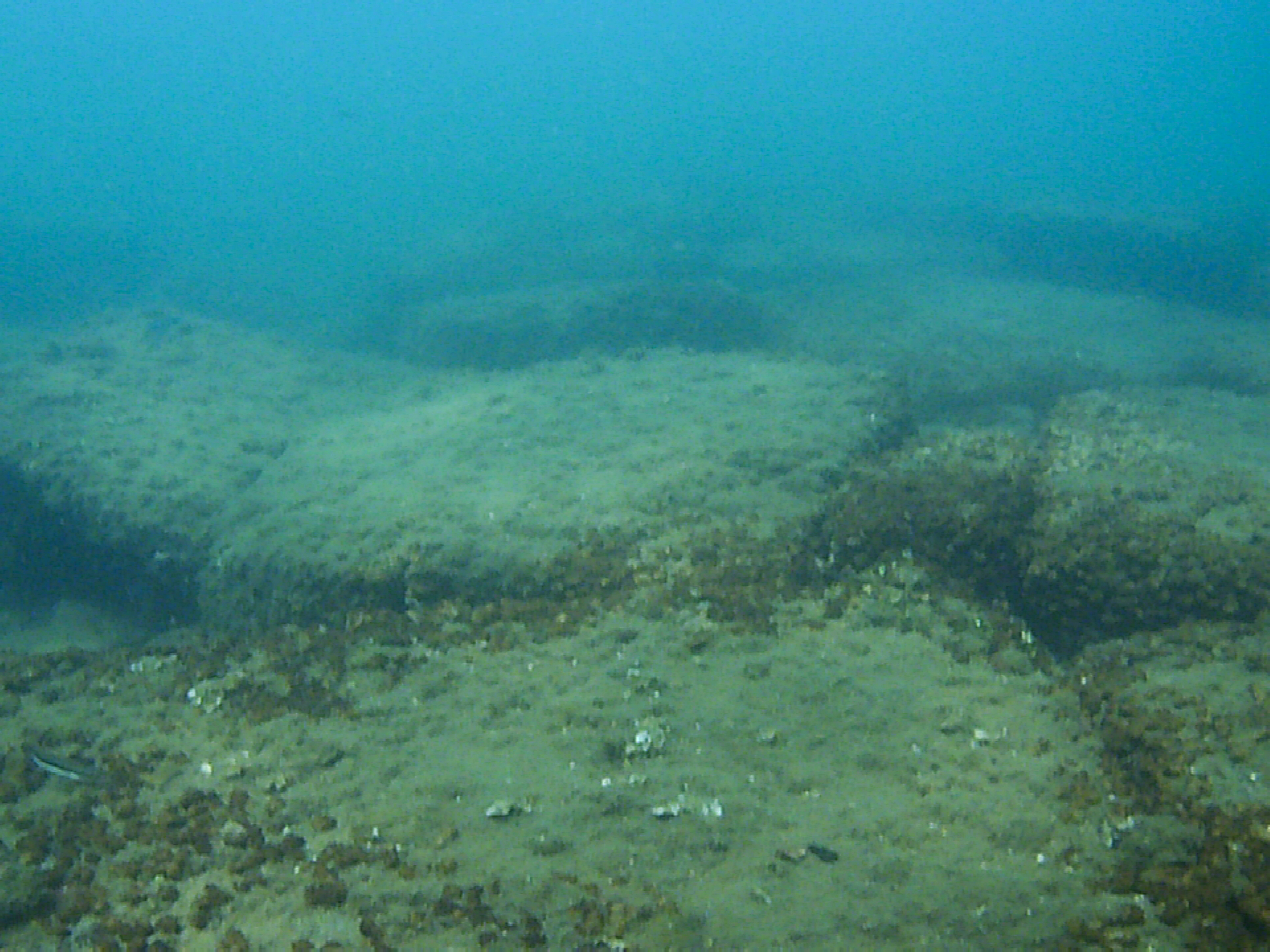 Underwater Archaeological Park of Baiae - via herculanea